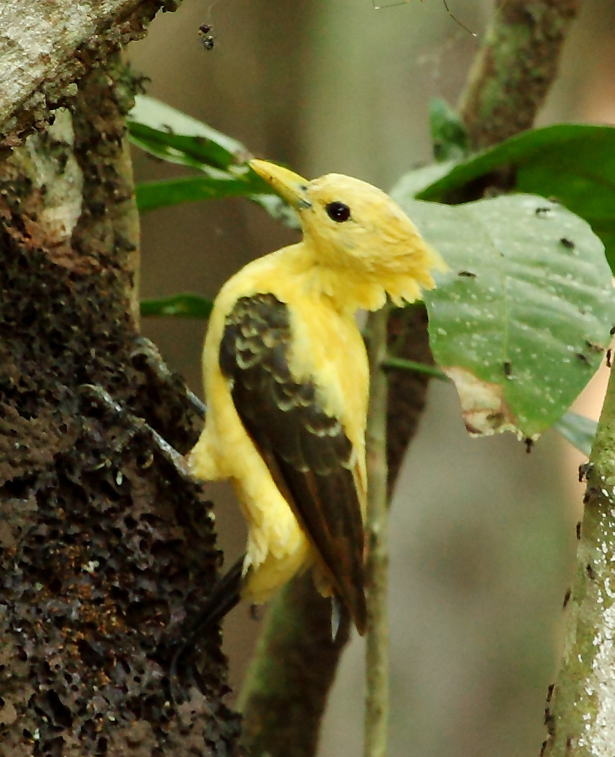 Cream-colored Woodpecker (female) en Iranduba - AM - Brazil